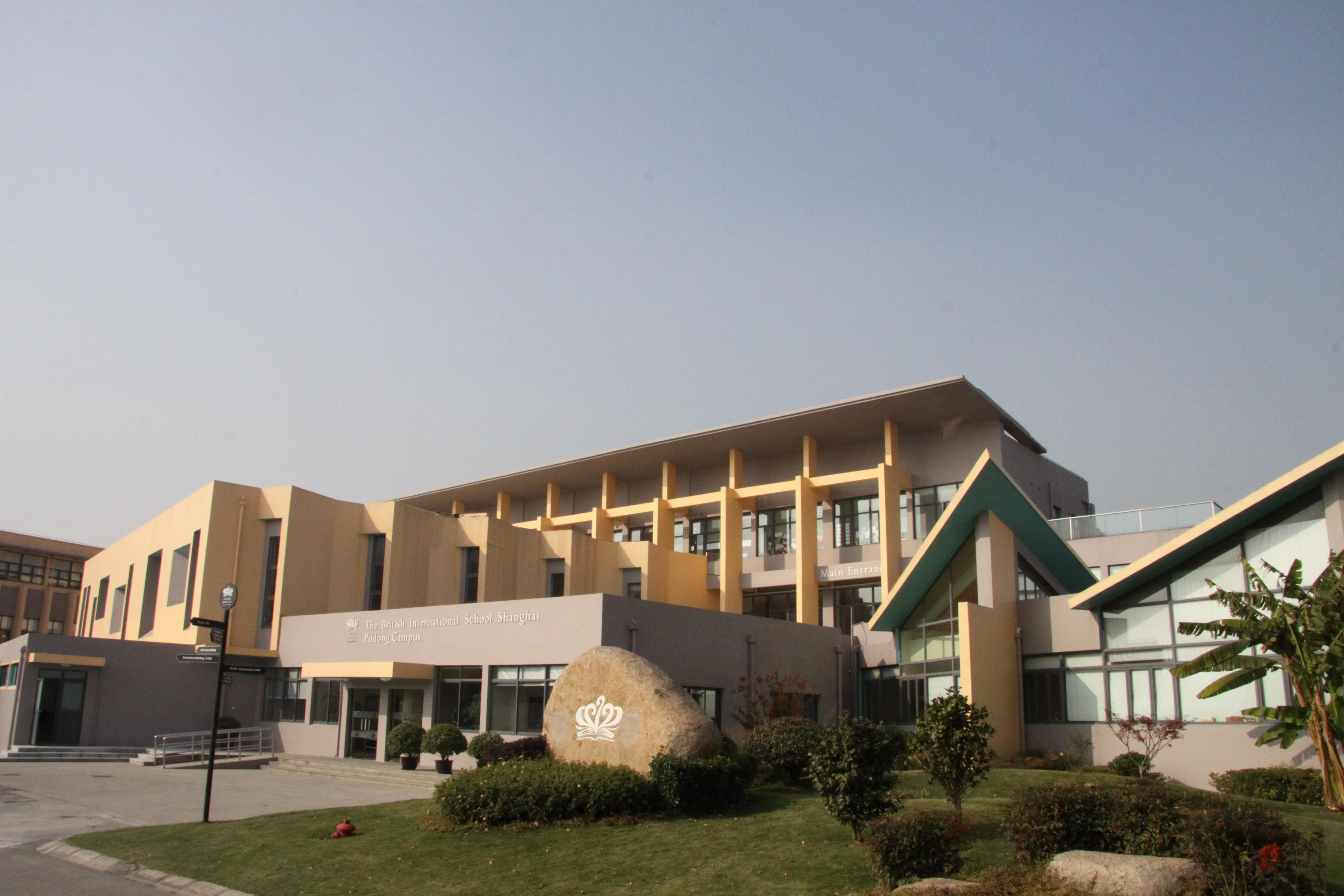 British International School Shanghai Pudong Campus (now Nord Anglia International School Shanghai Pudong) photograph